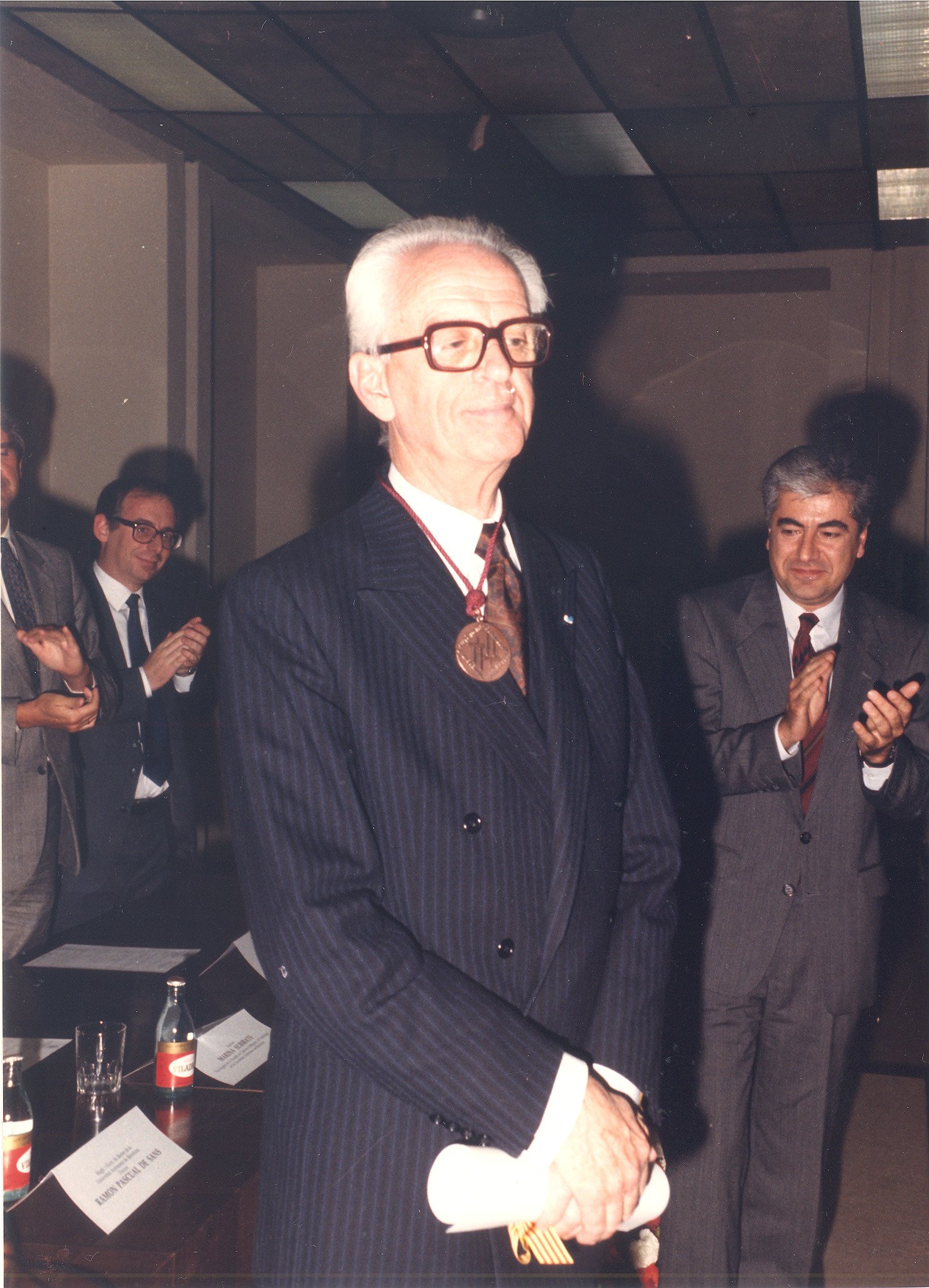 Honoris Causa Reception in UAB